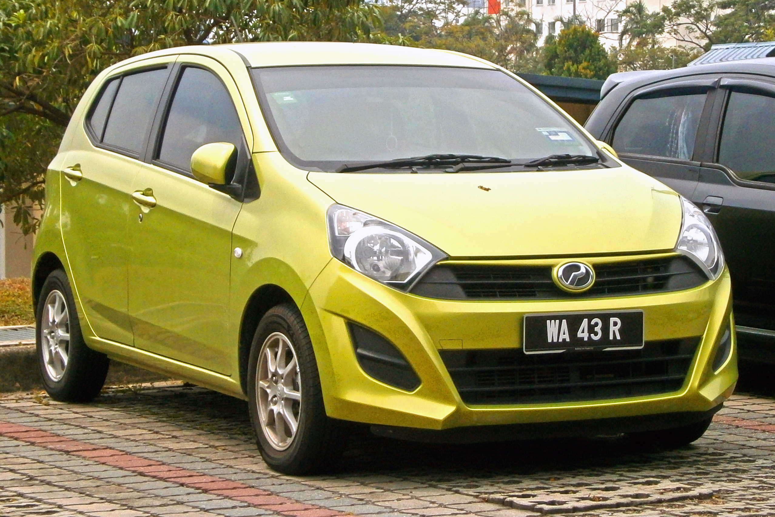 2014 Perodua Axia Standard G 1.0 5-door hatchback